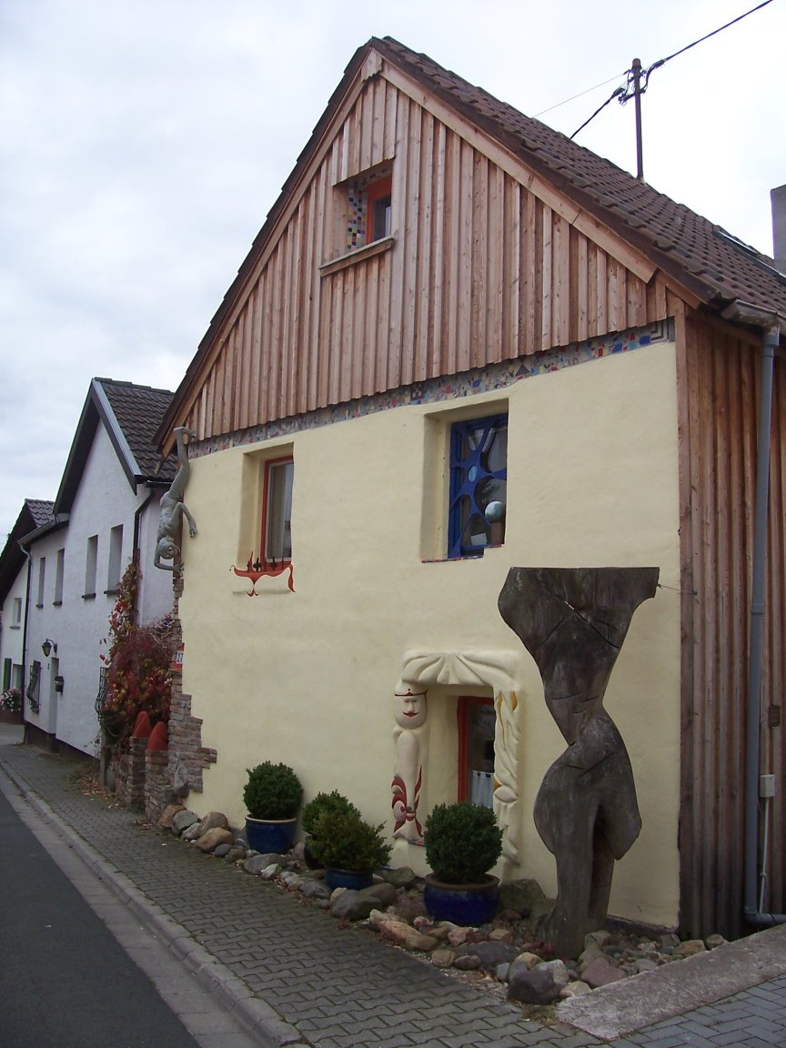 Rüdesheim in the district of Bad Kreuznach, in Rhineland-Palatinate, Germany.